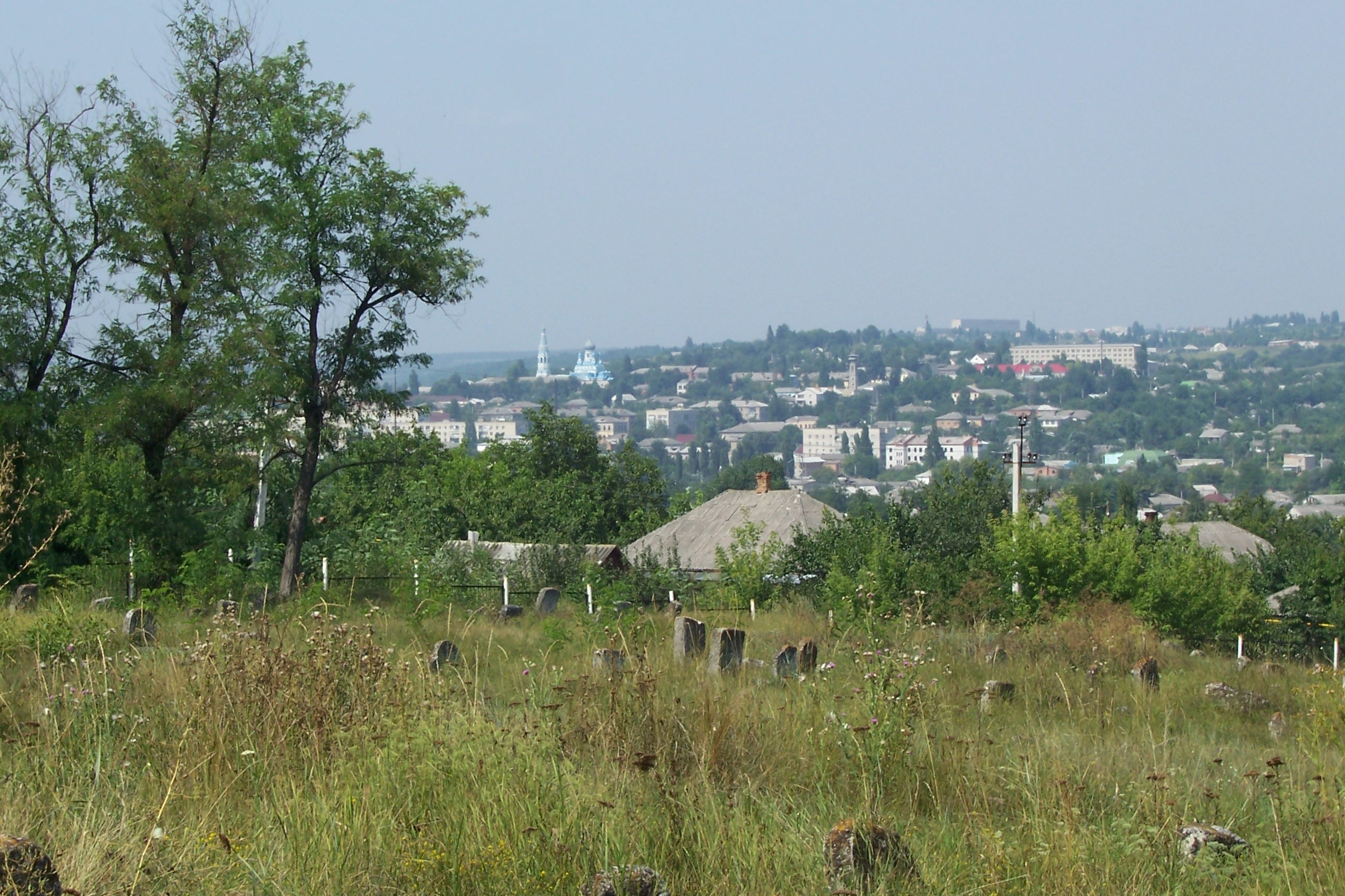 Panorama of Balta, Ukraine: View from the old Jewish cemetery